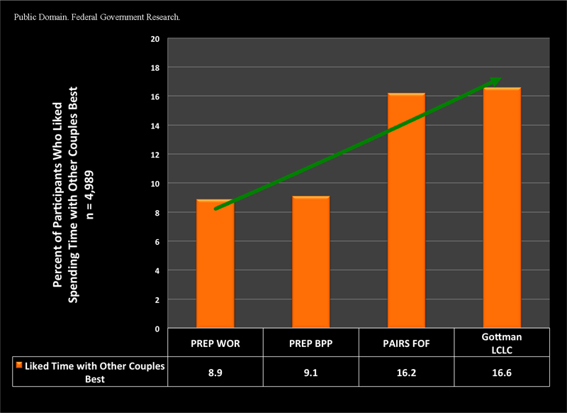 Data from Supporting Healthy Marriage Implementation Report - Work Created by Agency of Federal Government. Public domain.